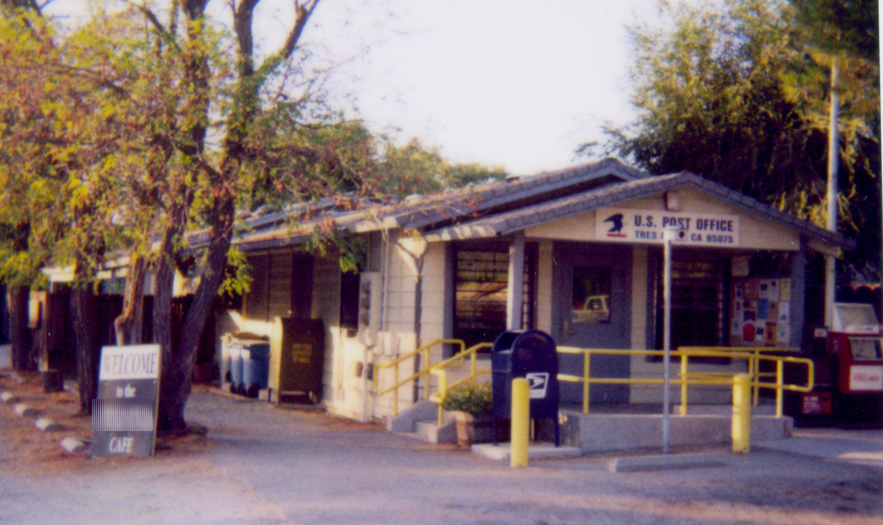 Documentary snapshot of US Post Office located at Tres Pinos, California taken in 2006. The post office is a significant landmark in the community. Photo by David Jordan. Please credit the photographer when using this photo. State Route 25